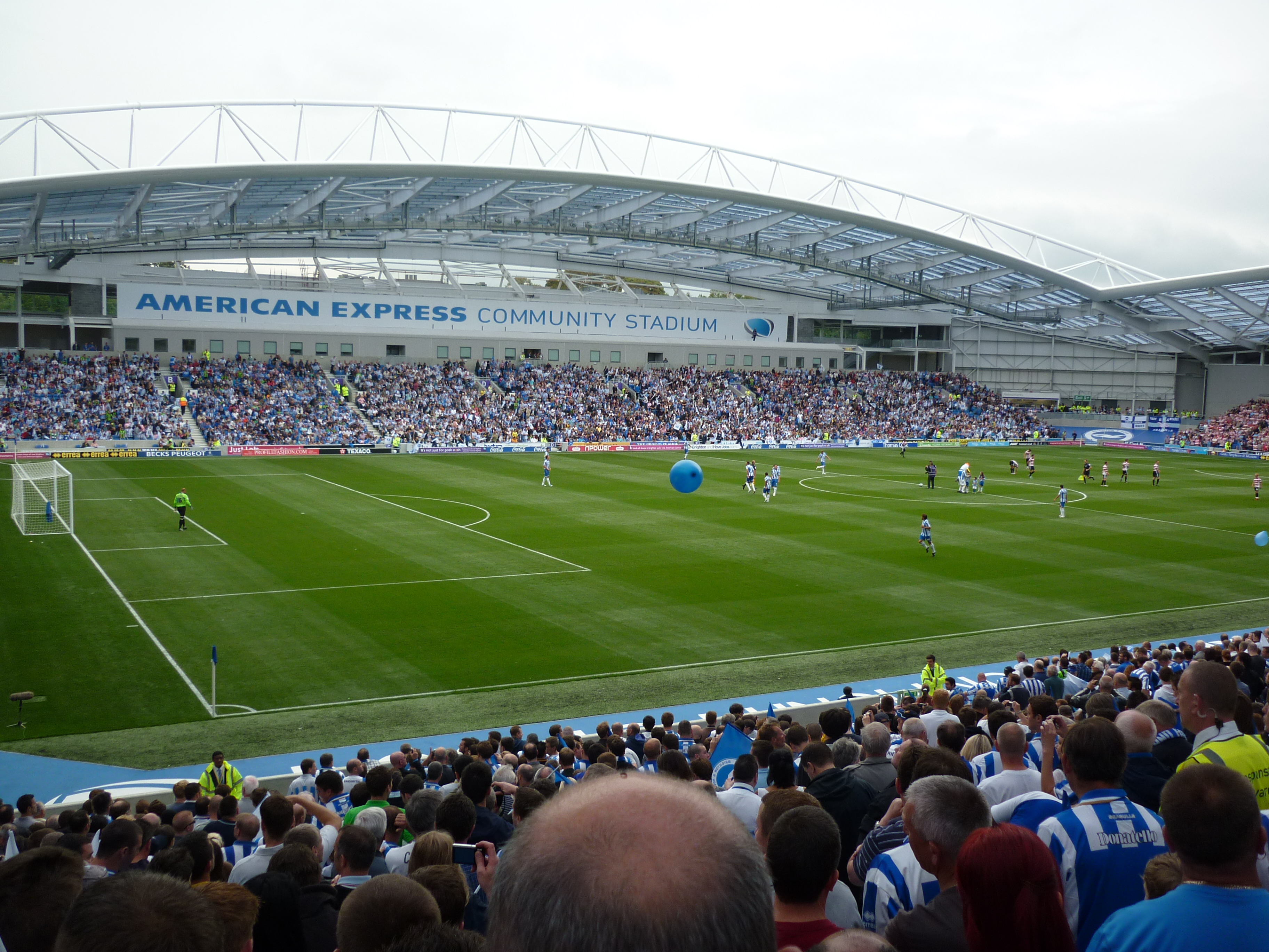 BHAFC v DRFC Football League Championship 6/8/11